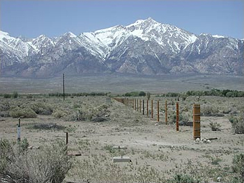 Mount Williamson, California, USA, above Manzanar relocation camp